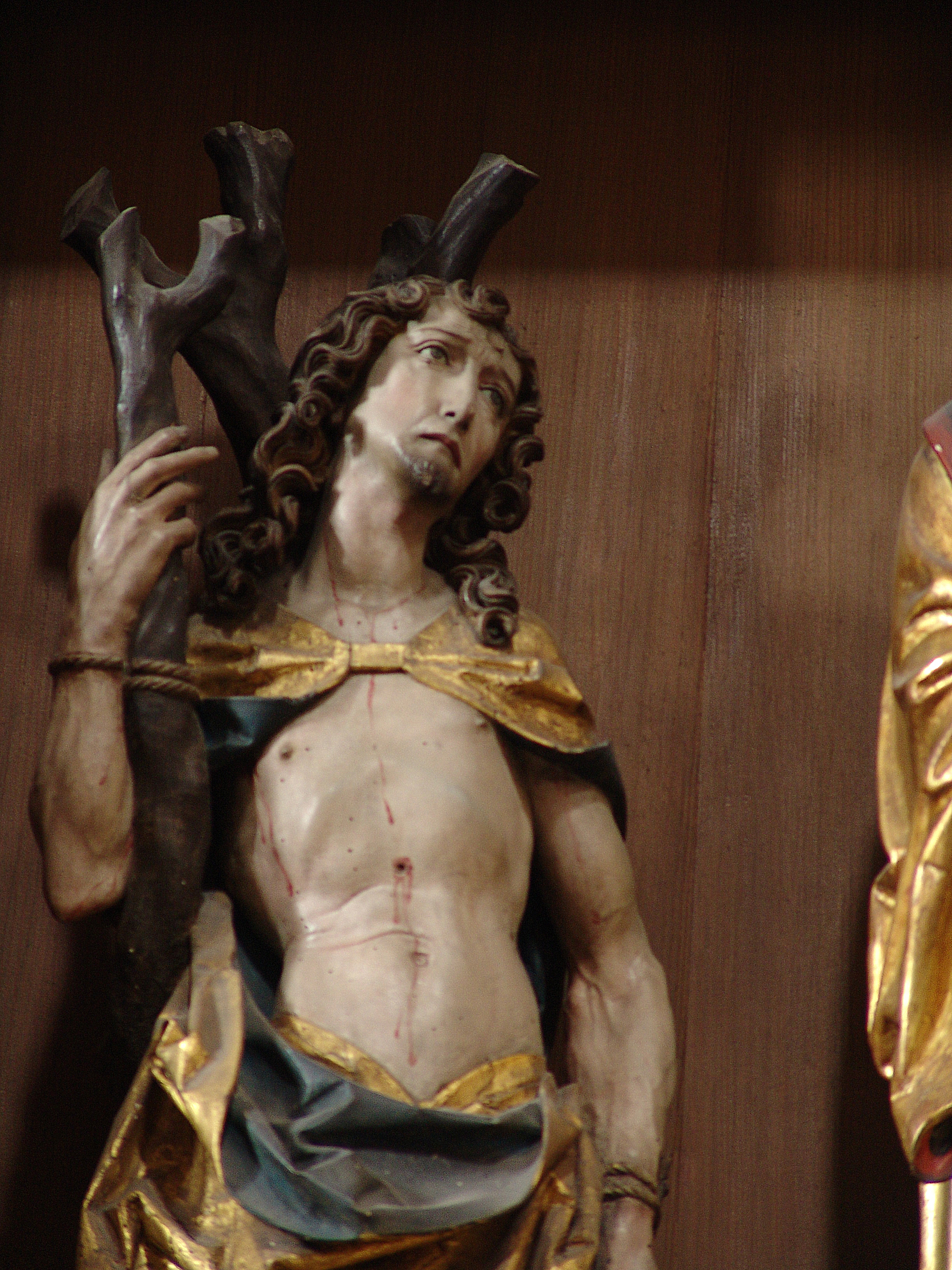 Detail of St. Sebastian from the Riemenschneider workshop